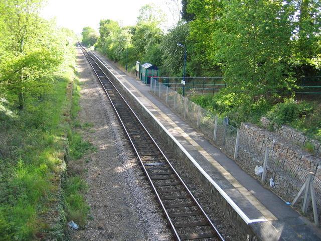 Looking at the Claverdon railway station from the Henley road bridge.